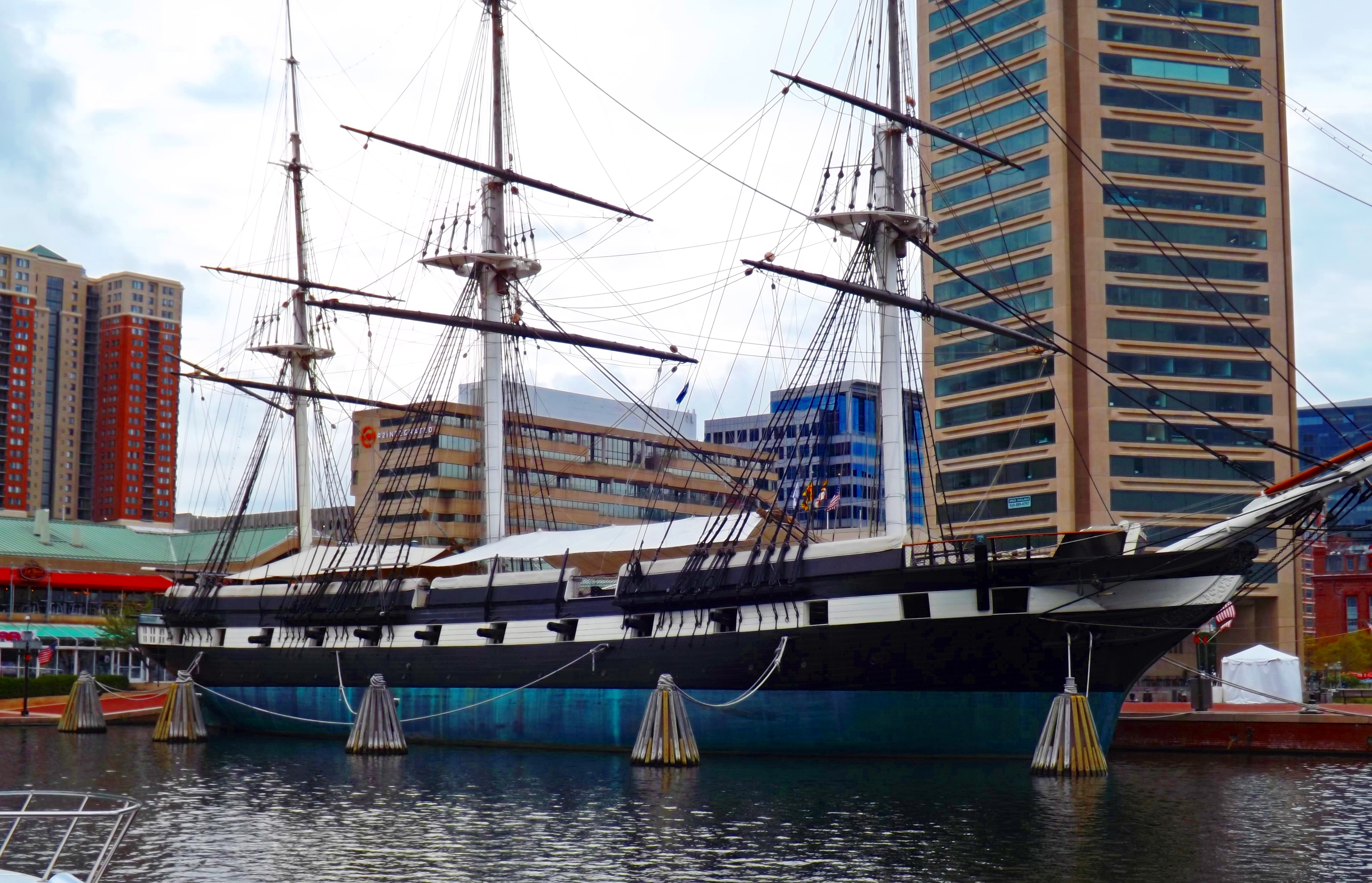 U.S.S. CONSTELLATION, Pier 1, Pratt St. Central